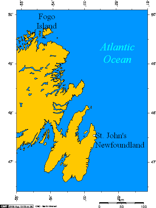 Fogo Island in the Northwest Corner of the map, and St. John's, the capital of Newfoundland and Labrador, on the Avalon Peninsula, to the South.